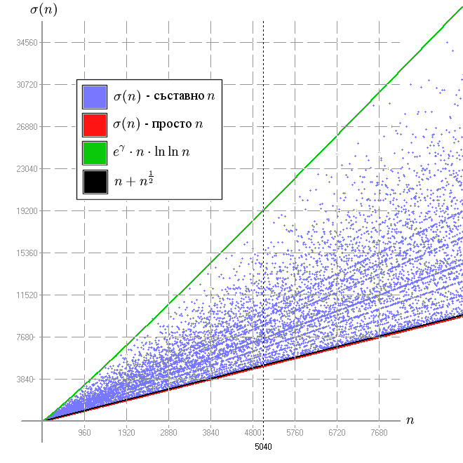 Divisor function